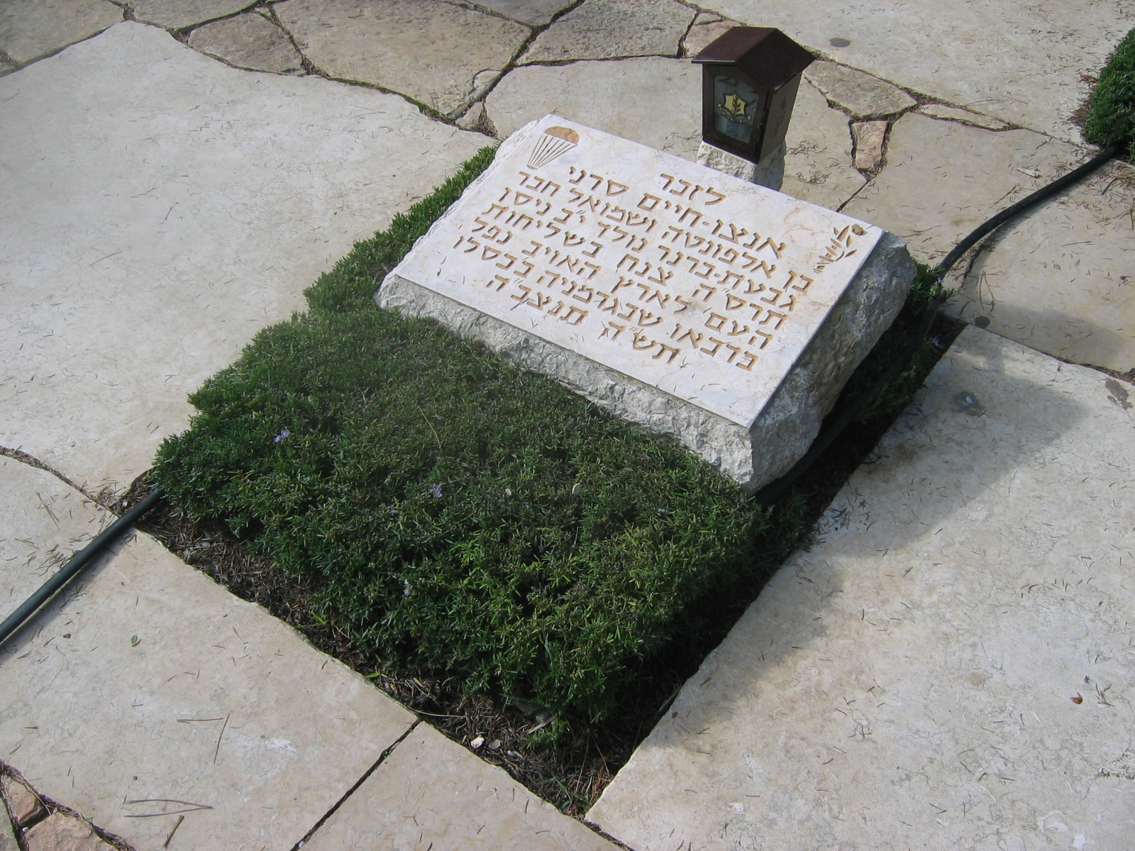 Memorial for Enzo Sereni